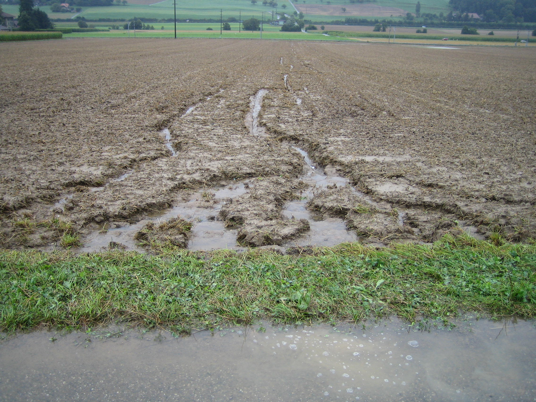 Erosion caused by external water, canton of Bern, Switzerland